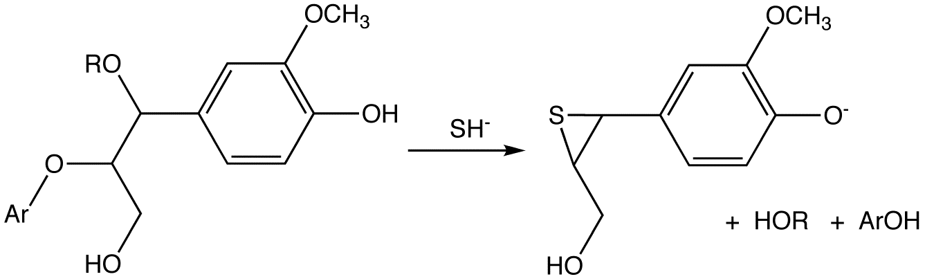 chemforKraftProcess